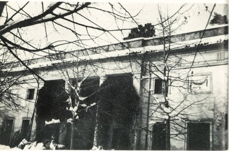 The Barchessa in the '30